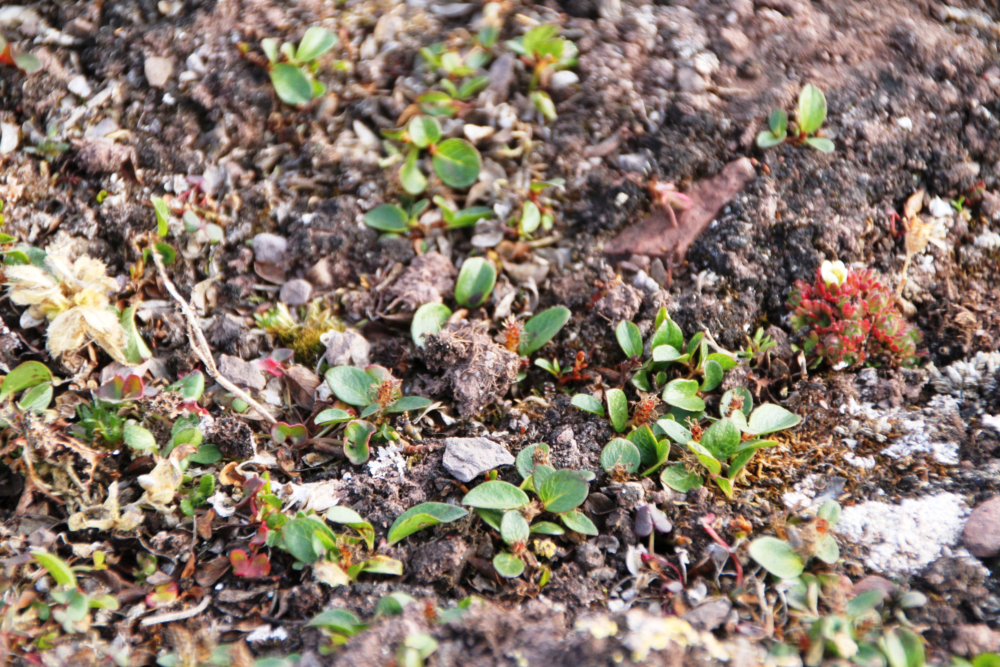 Salix polaris (norwegian: polarvier) observed at Reinsdyrflya, northern Spitsbergen (Svalbard).